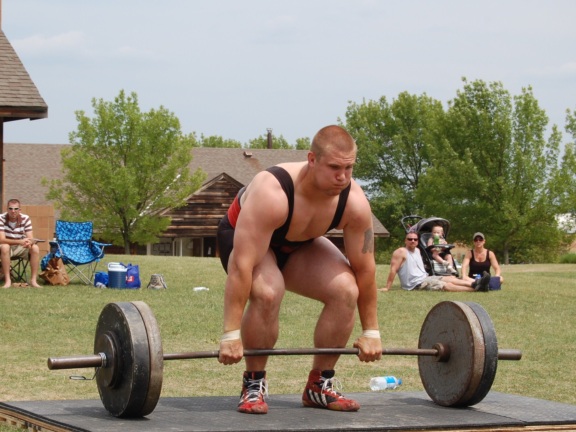 Strongmen event: the Deadlift (phase 1).